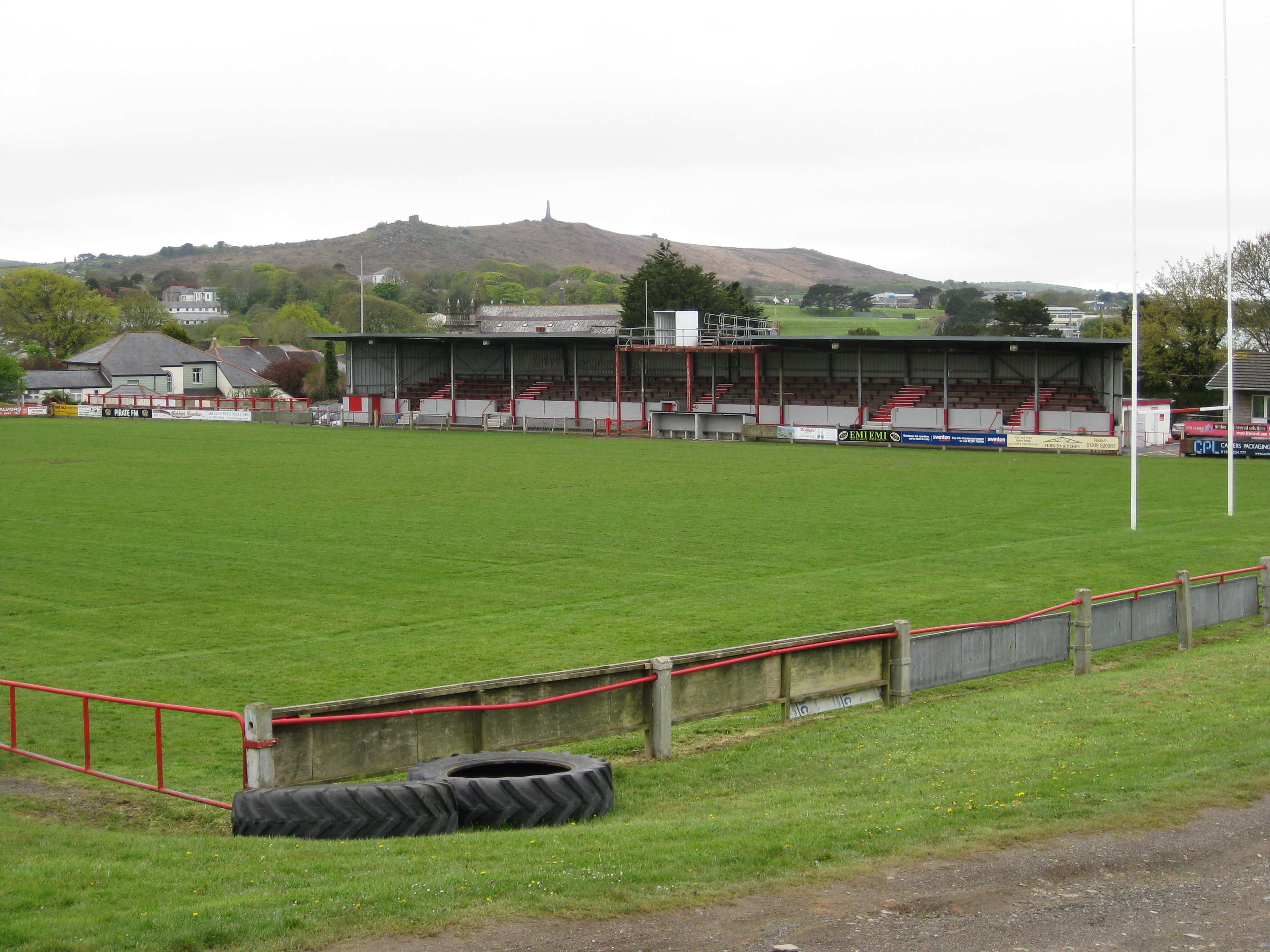 Digital photo of grandstand at Recreation Ground, home of Redruth RFC